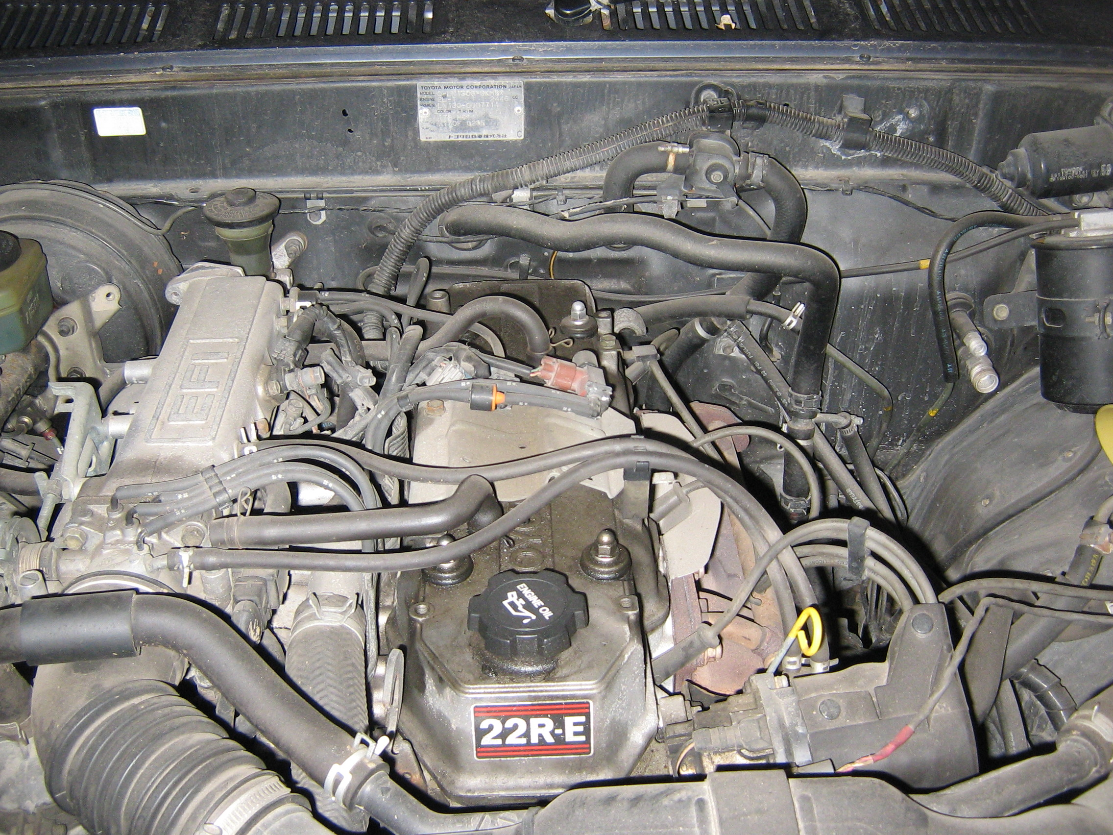 1989 Toyota Hilux SURF 4x4 Its a bit of a mongrel as it started life out with a diesel 2.4L engine which was swapped out for a 22R-E (recently rebuilt). Its got 5spd gearbox and right hand drive of course.